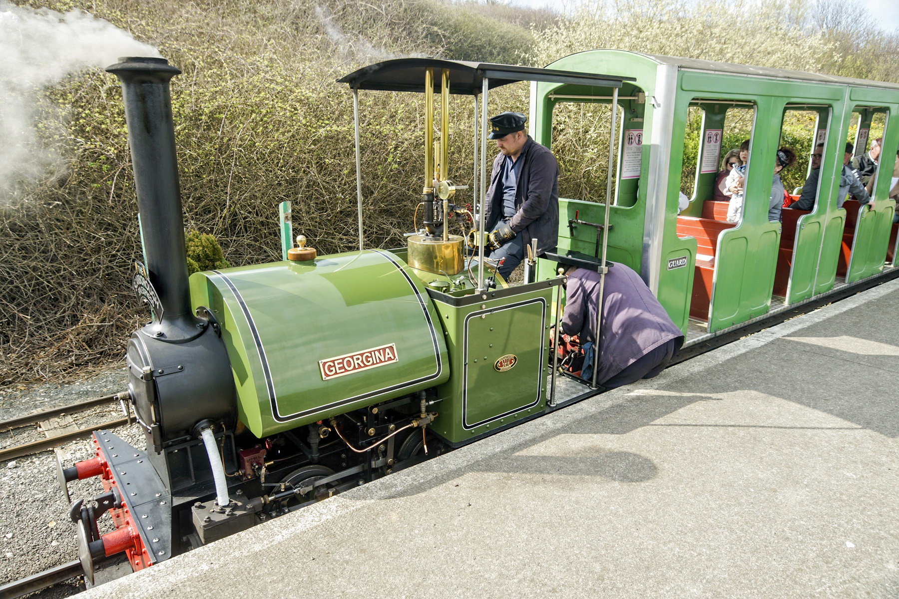 Ready for the off, real steam engine Georgina prepares to leave Scalby Mills for Peasholm. In my youth, this railway was solely operated by two DH locomotives in the shape of A3 Pacifics dating from 1931 & 1932. I think they are still in service on this railway.